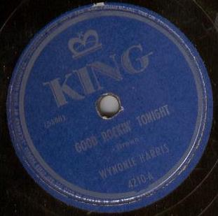 Cover of a Single by Wynonie Harris